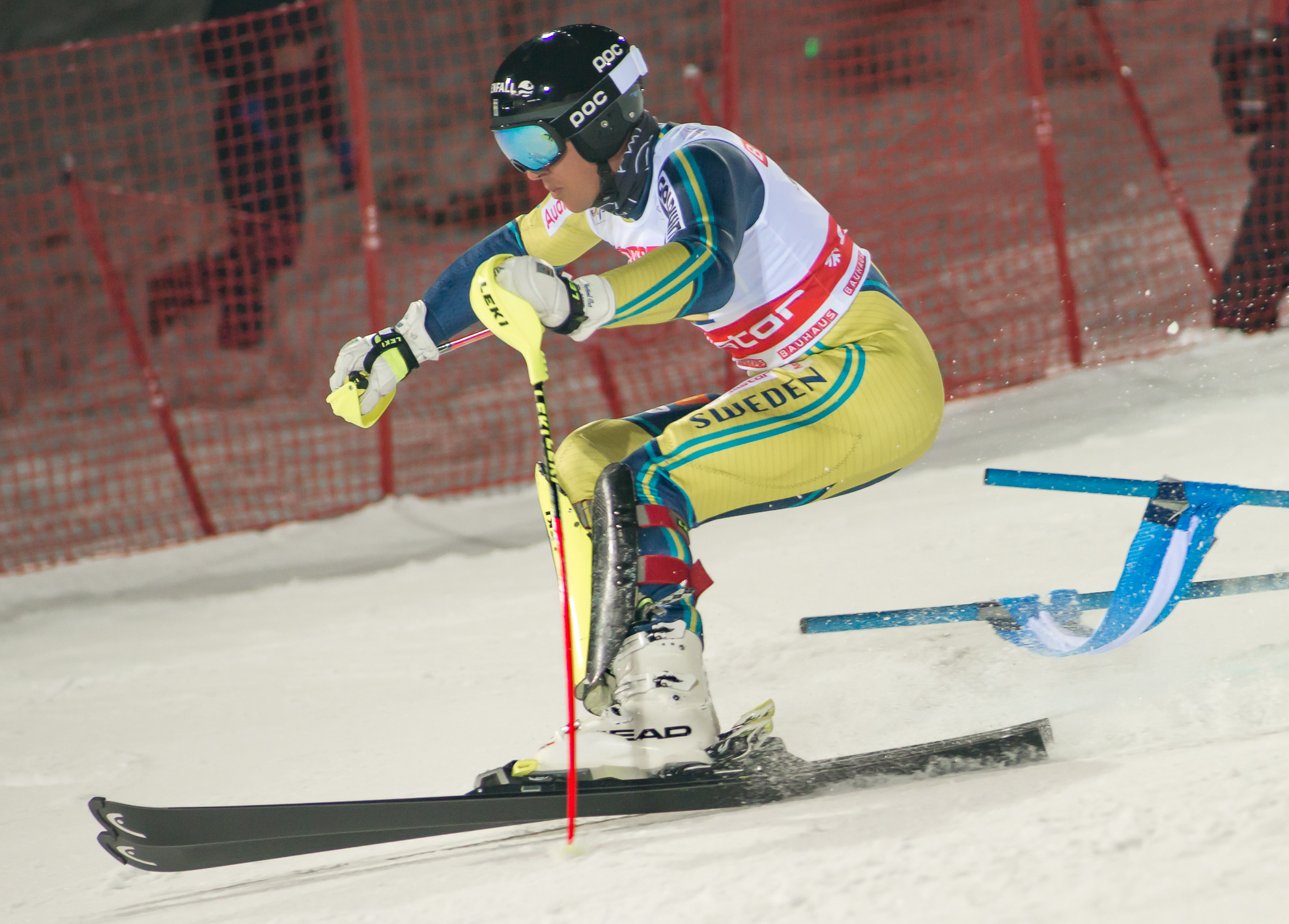 Andre Myrher in full speed Photo by Roland Osbeck